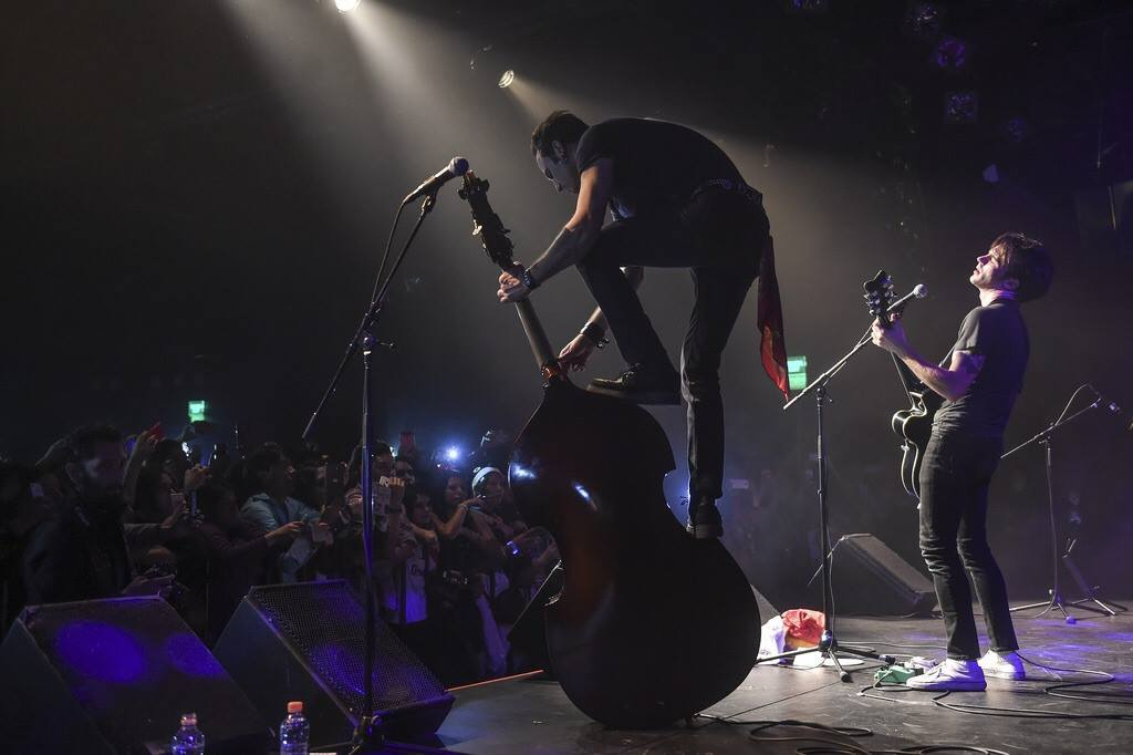 Ο Drake Bell και ο Djordje Stijepovic στο Mexico City το 2016.